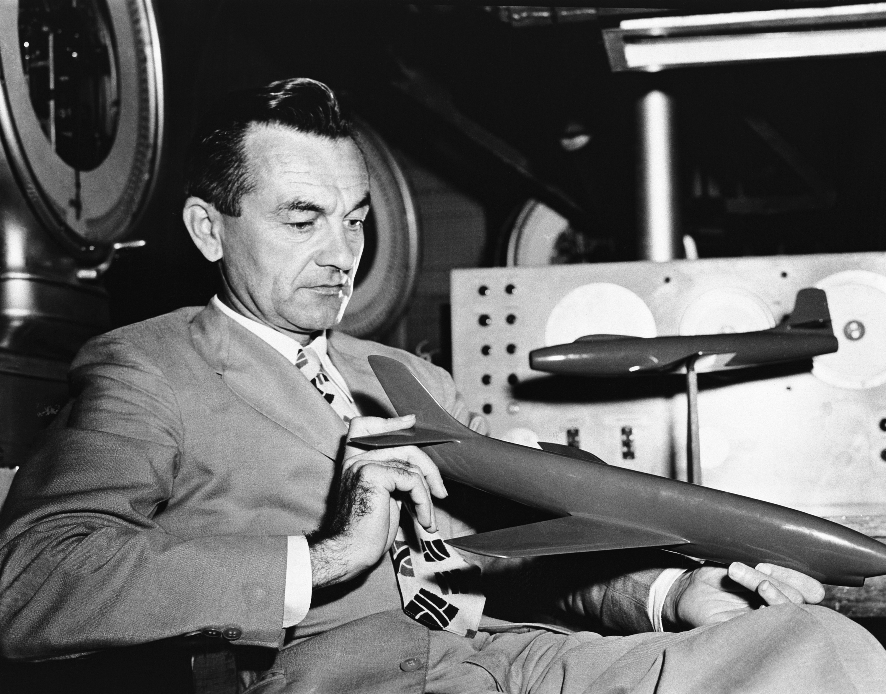 John Stack, head of Compressibility Research Division, was a hard charging, persuasive man whose attitude toward unproven technology was usually, "Let's try the damn thing and see if we can make it work."